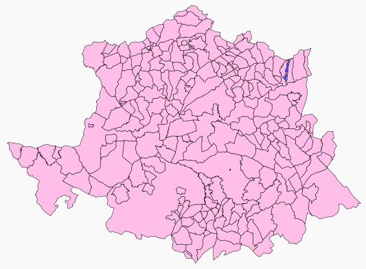 Valverde de la Vera